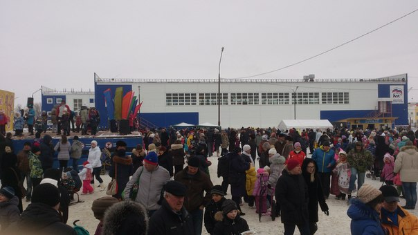 Maslenitsa (Saratov)